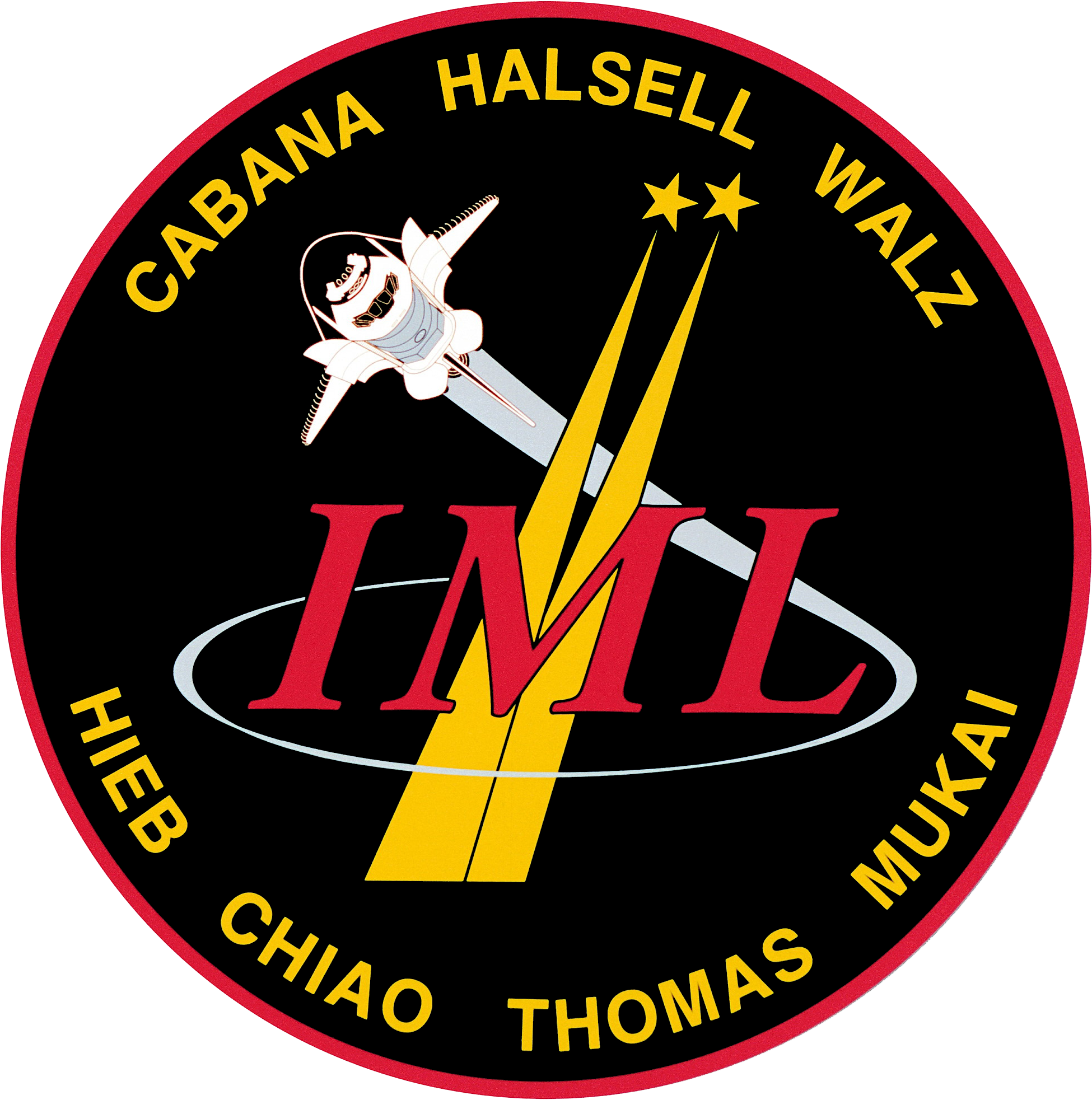 STS-65 Mission Insignia Designed by the mission crew members, the STS-65 insignia features the International Microgravity Lab (IML)-2 mission and its Spacelab module which flew aboard the Space Shuttle Columbia. IML-2 is reflected in the emblem by two gold stars shooting toward the heavens behind the IML lettering. The Space Shuttle Columbia is depicted orbiting the logo and reaching off into space, with Spacelab on an international quest for a better understanding of the effects of space flight on materials processing and life sciences.